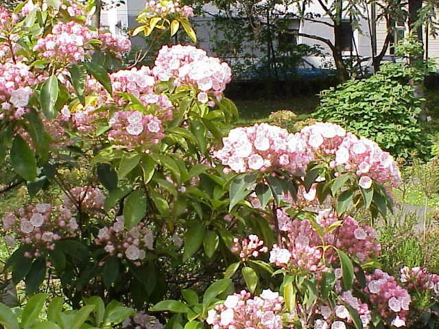 Species: Kalmia latifolia Family: Ericaceae Image No. 4